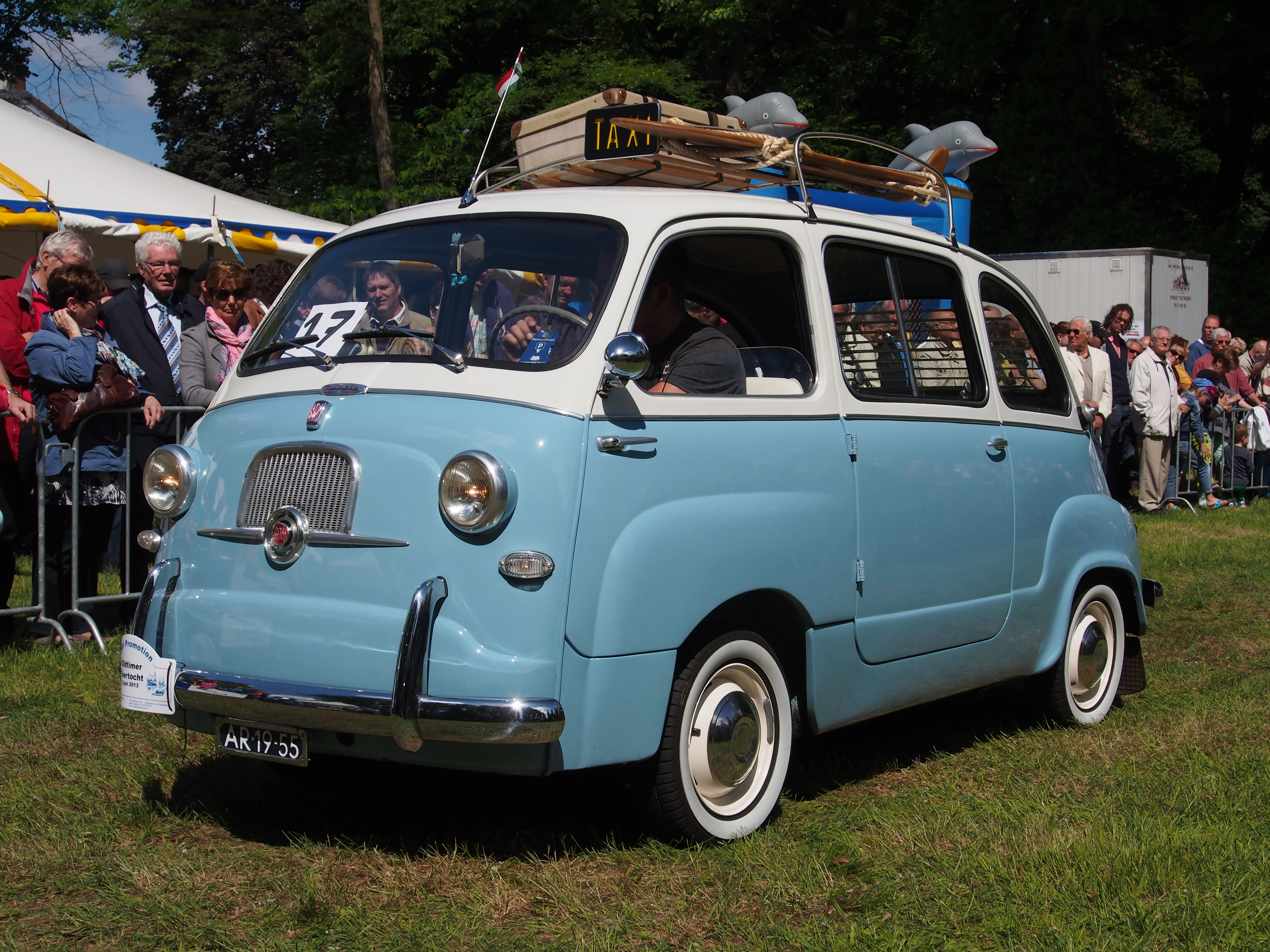 This is a picture of a 1957 Fiat Multipla Taxi.